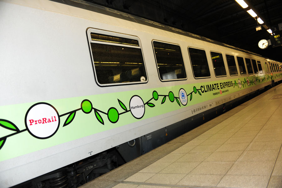 The Climate Express leaving Brussels